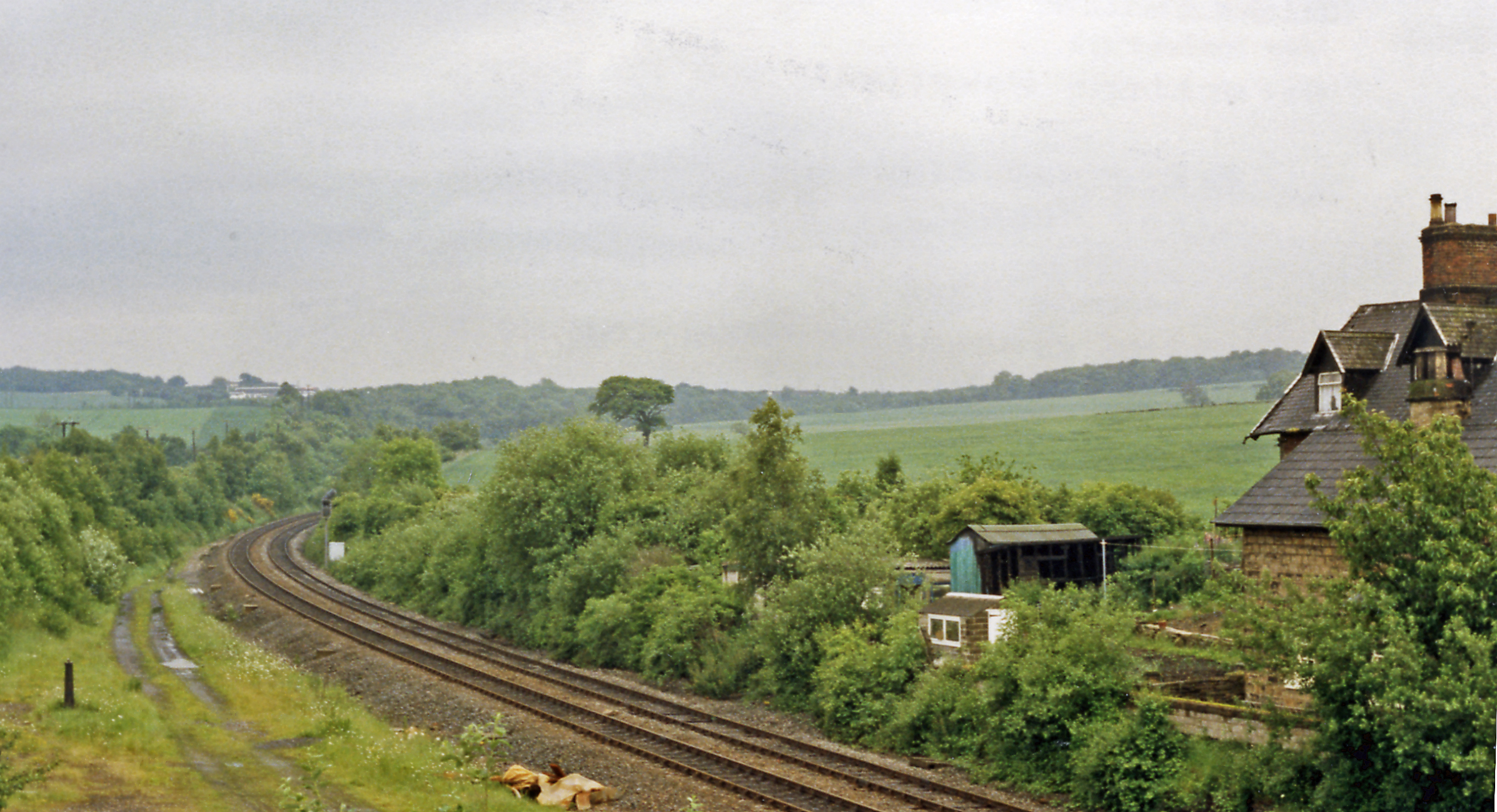 Site of Crigglestone West station, 1988. View southward, towards Barnsley: ex-L&Y Wakefield - Barnsley line, connecting via Crigglestone Junction (in the opposite direction), with the Calder Valley line from both Wakefield etc. to the east and Horbury & Ossett, Mirfield, Leeds, Bradford etc., etc etc. to the west. The station was closed from 13/9/65, but the line here remains as a route between Sheffield and Leeds via Wakefield.